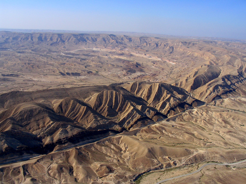 Large Makhtesh (Crater) in the Negev Desert in Israel. Taken while paragliding